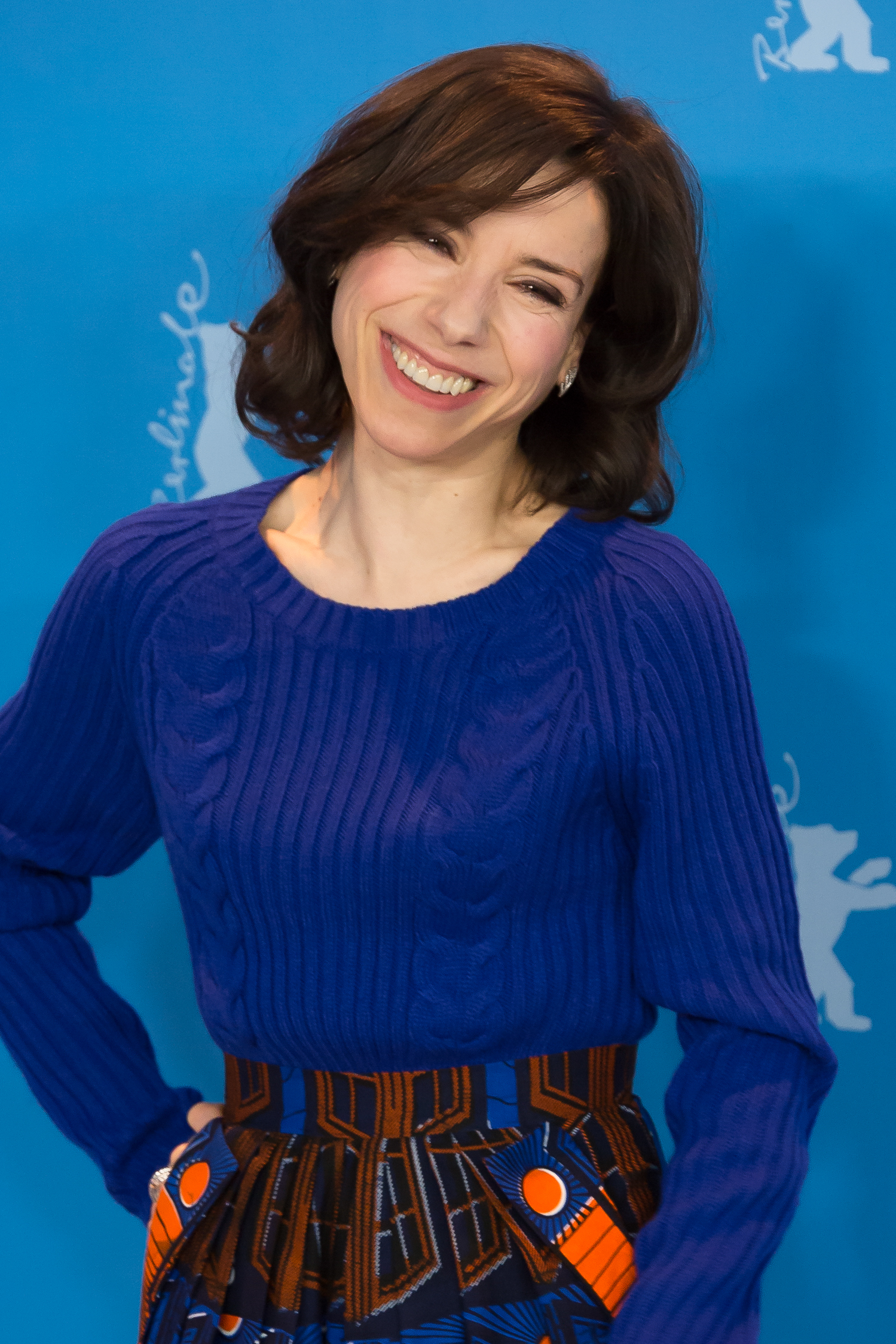 The actress Sally Hawkins at the presentation of the movie Maudie at the Berlinale 2017